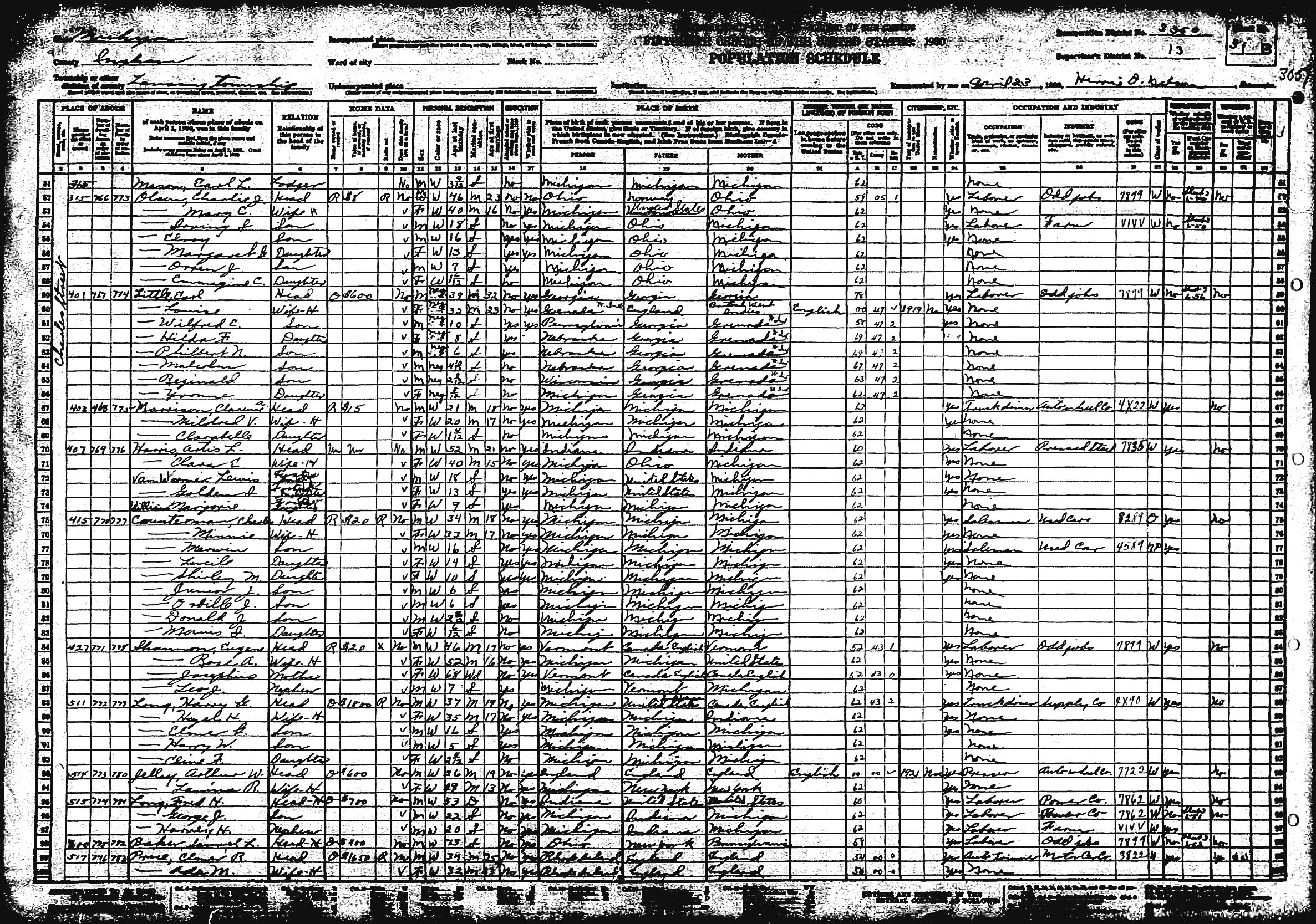 Malcolm X in the 1930 US Census in Lansing, Michigan living at 401 Charles Street. His sibling are: Wilfred E. Little (1920- ) Hilda F. Little (1922- ) Philbert N. Little (1924- ) Reginald Little (1926- ) Yvonne Little (1929- )